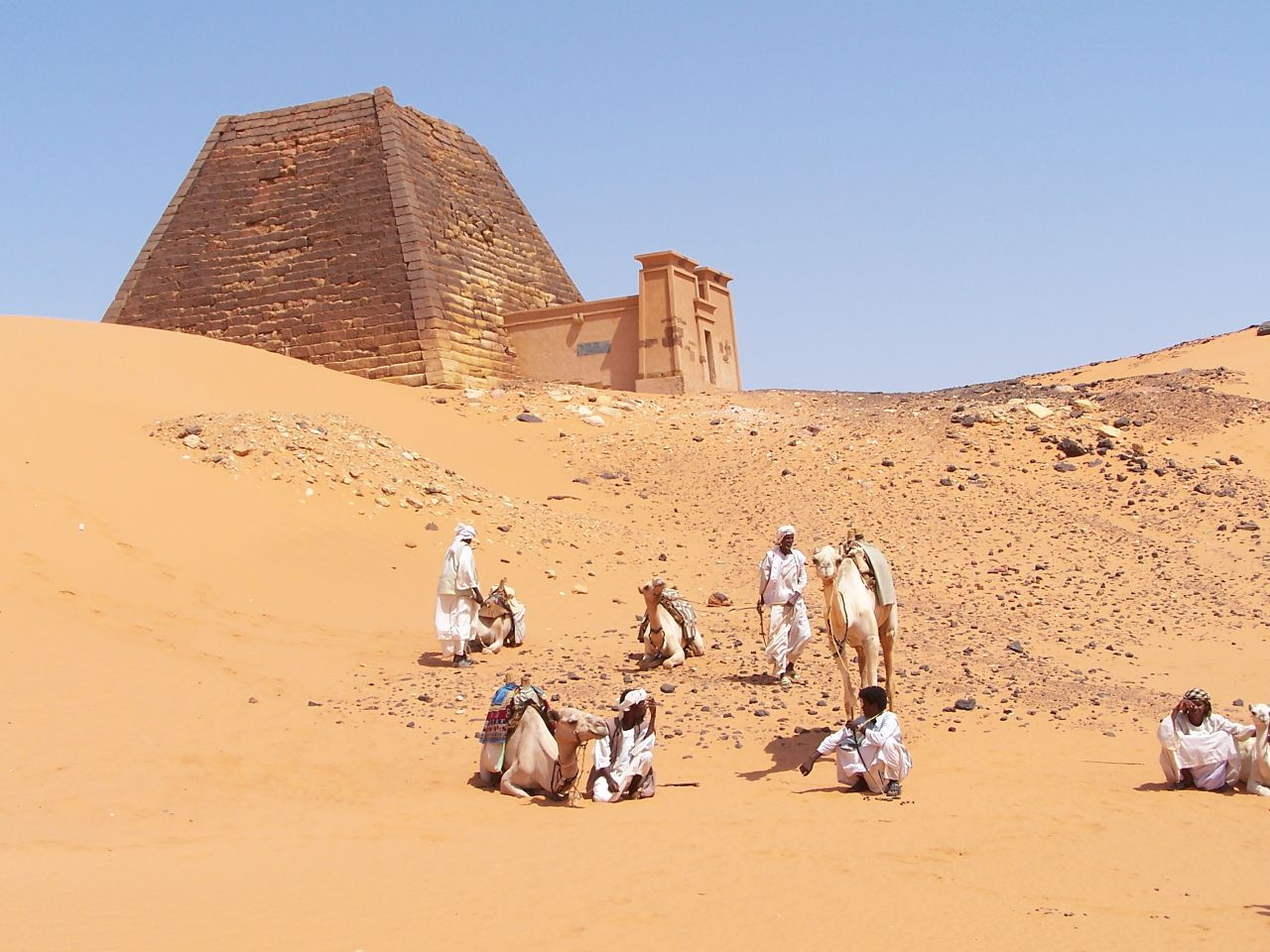 Pyramids of Meroe in Sudan. Image shows pyramide N20.